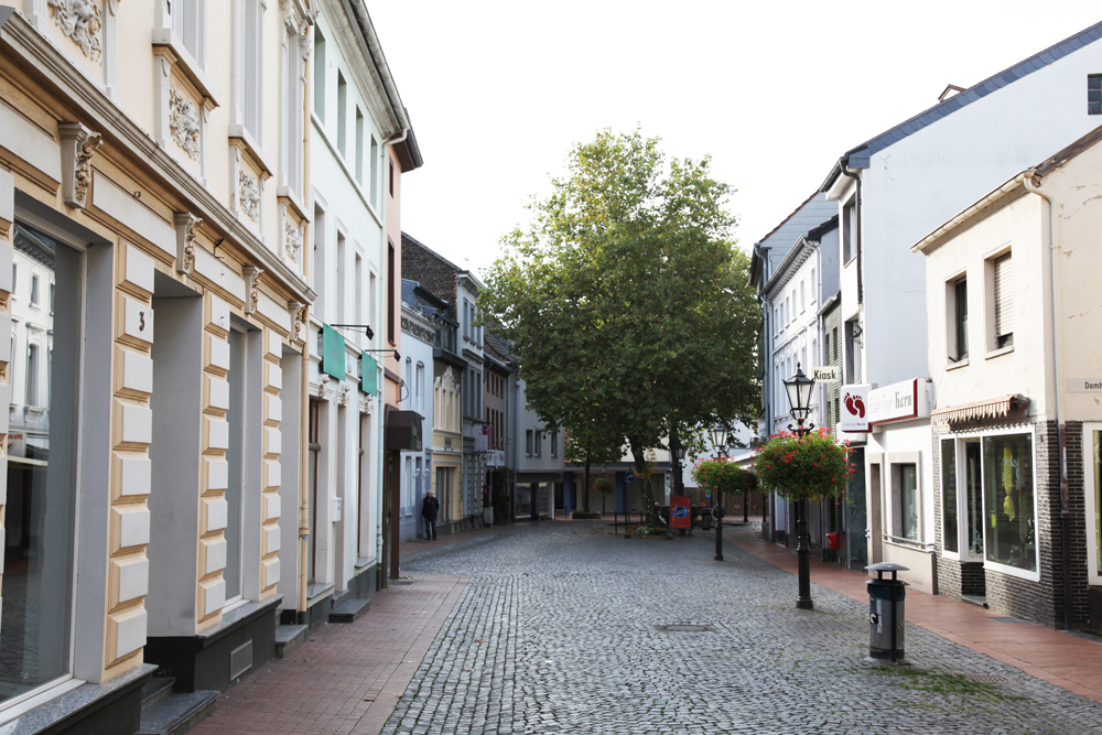 Old town of Dülken, Germany. Part of the pedestrian zone Blauenstein